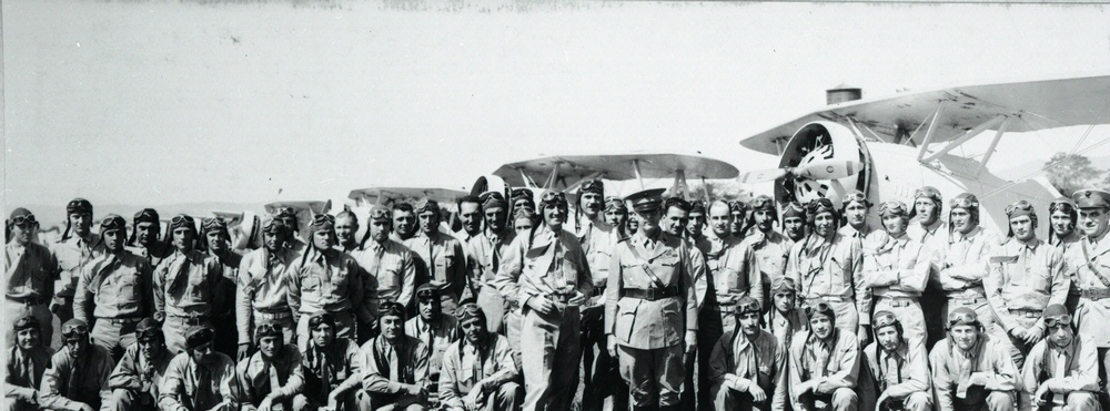 Pilots of the U.S. Marine Corps East Coast Expedition Force stationed at Quantico, Virginia, 1932. Photo Number: NASM 99-15698.